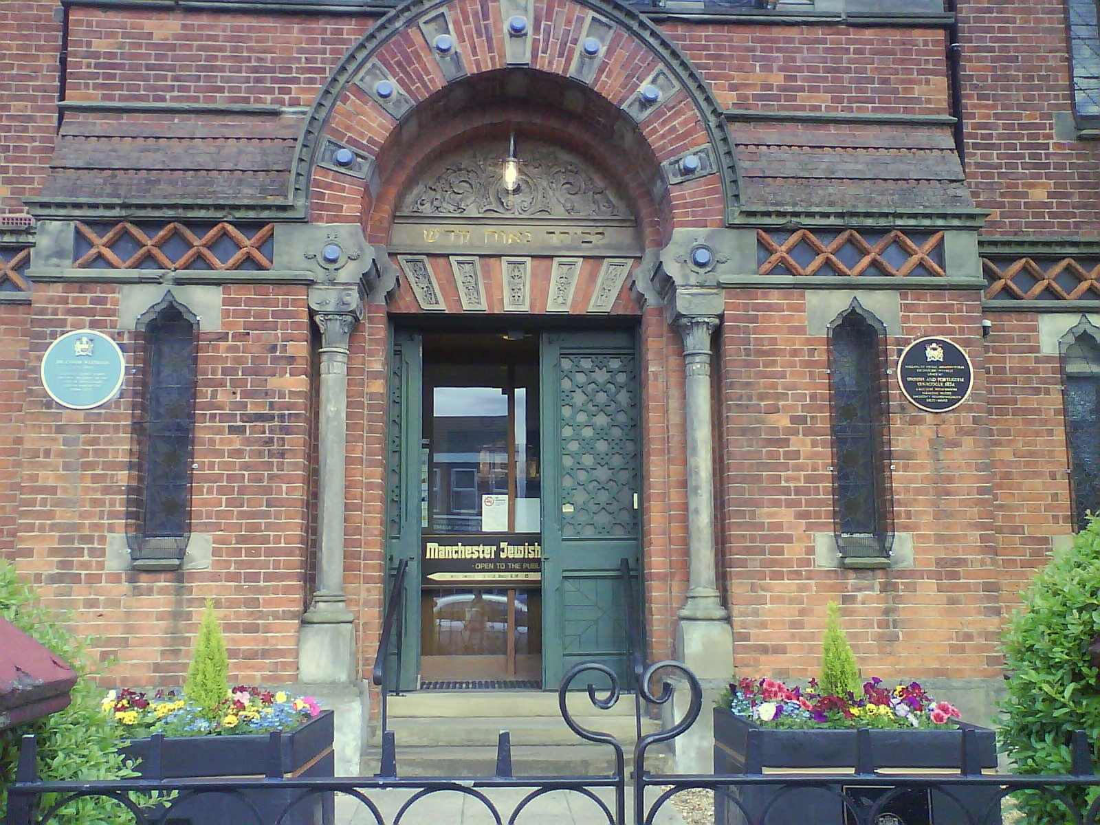 Entrance of Jewish Museum, 190 Cheetham Hill Road, Manchester. Built in 1889 as a Spanish and Portuguese Congregation synagogue.